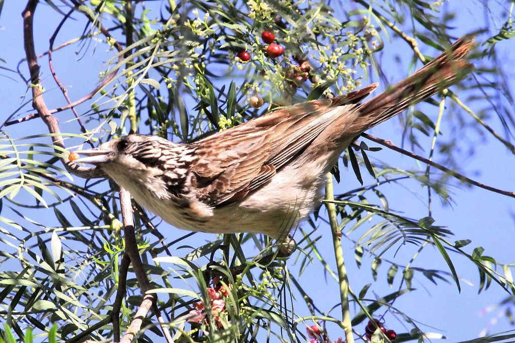 Striped Honeyeater eating berries